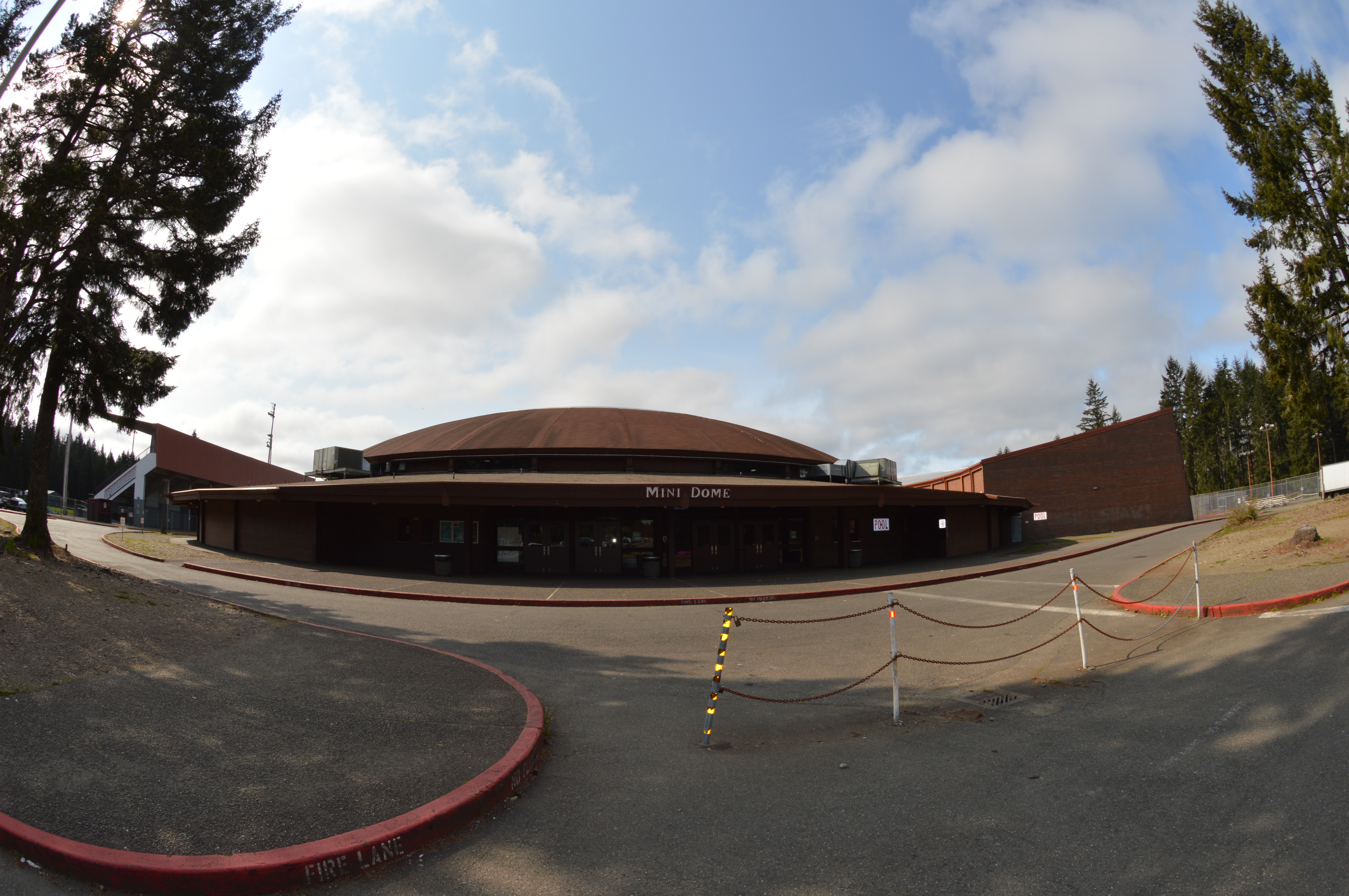 Shelton High School Mini Dome is home of the gymnasium and pool.